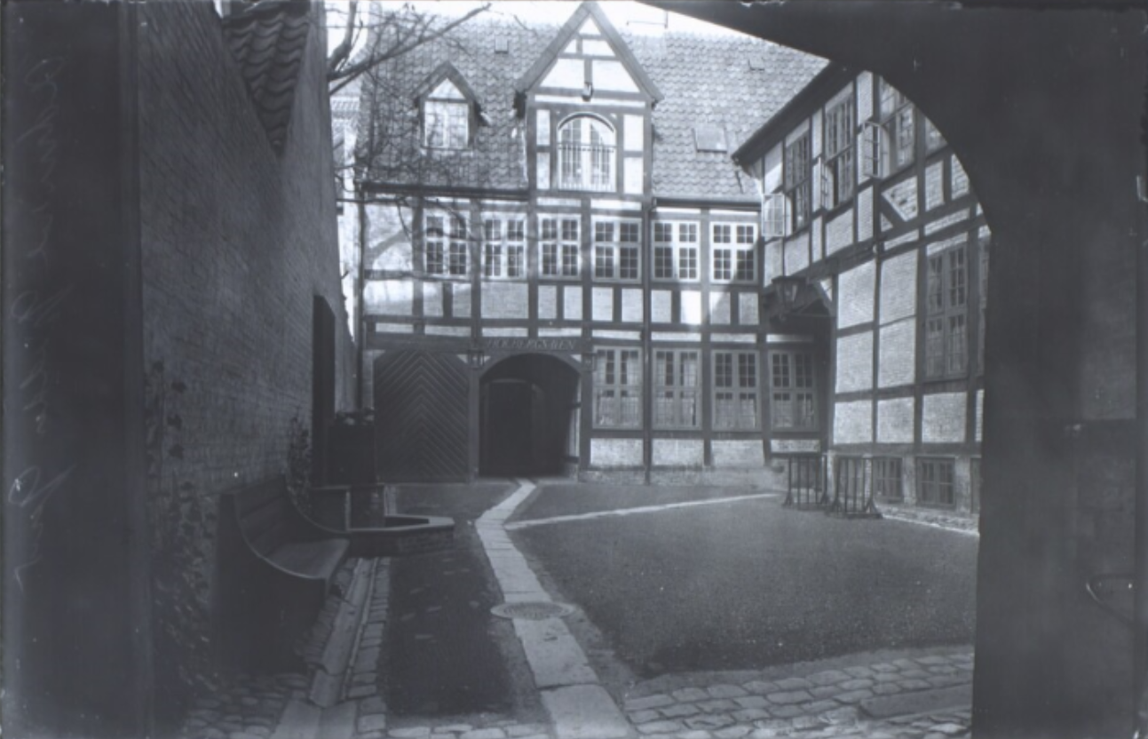 The courtyard of Admiral Gheddes Gård at Store Kannikestræde 10 in Copenhagen, Denmark.